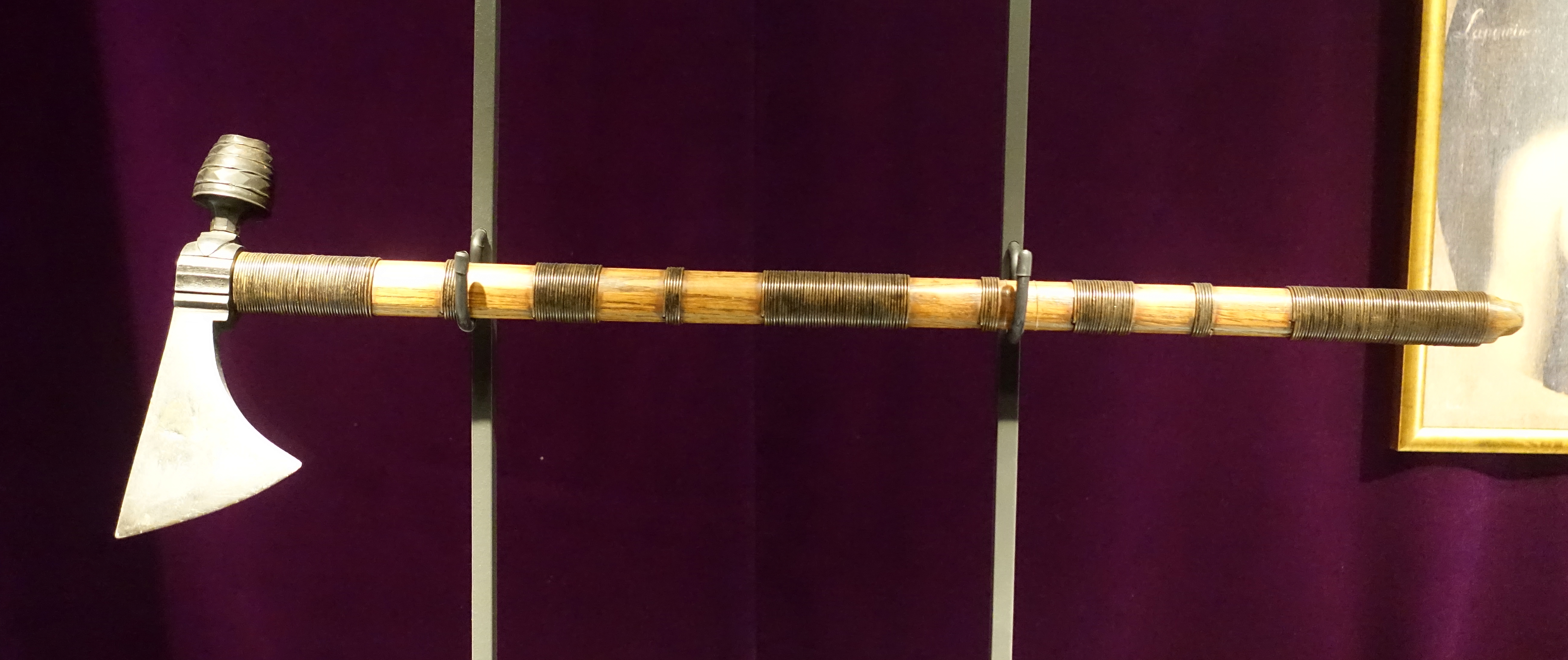 Exhibit in the Etnografiska museet, Stockholm, Sweden. This work is old enough so that it is in the public domain. This is a photo of an artwork at the Museum of Ethnography in Sweden with the identifier: 1783.01.0001